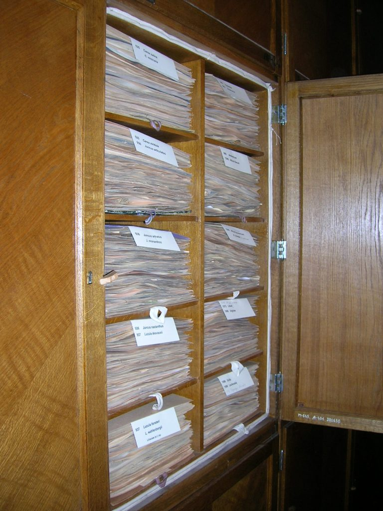 Гербарий Московского университета